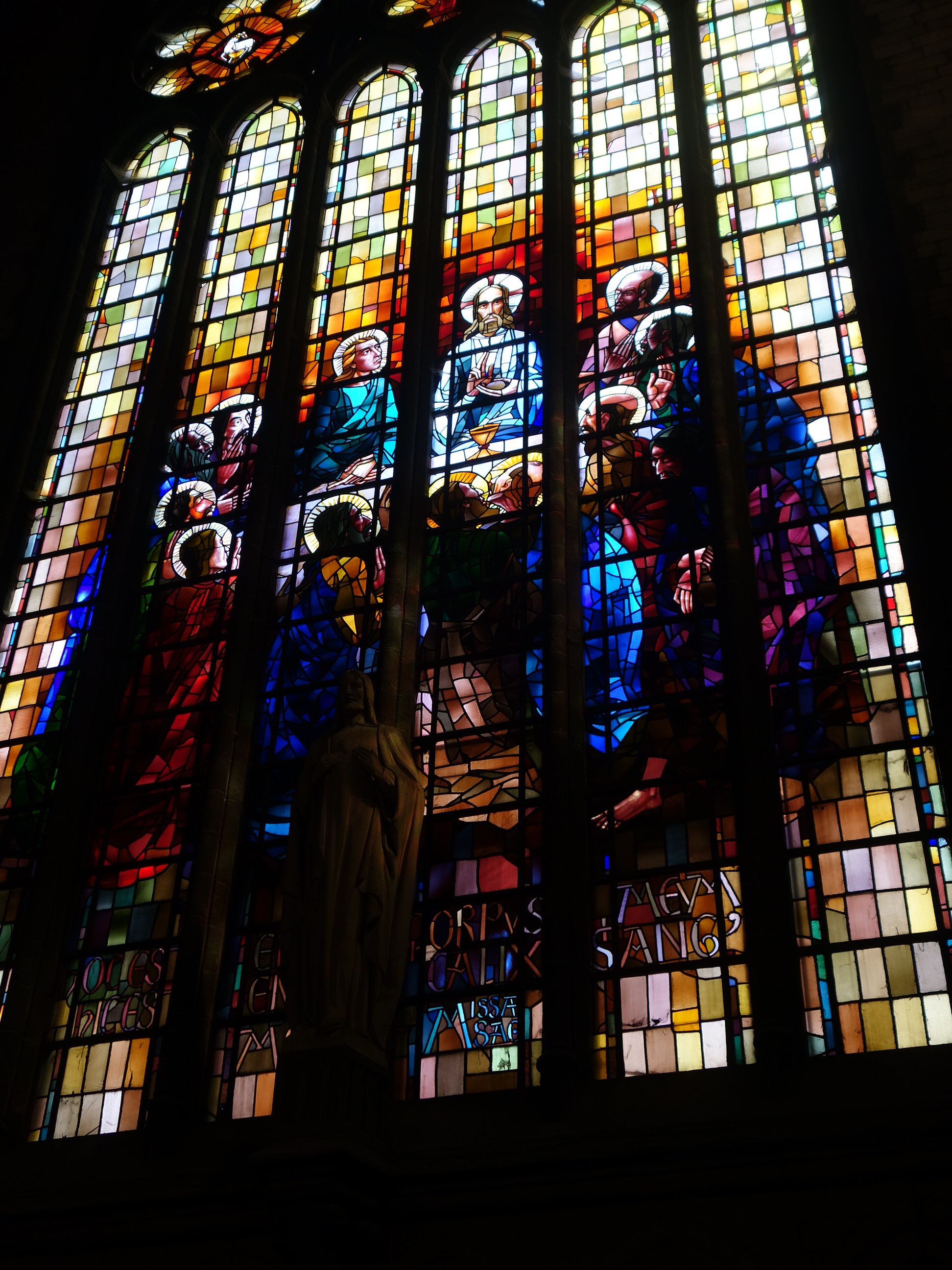 Interior of the Saint Remigius Church (Molenbeek, Brussels)